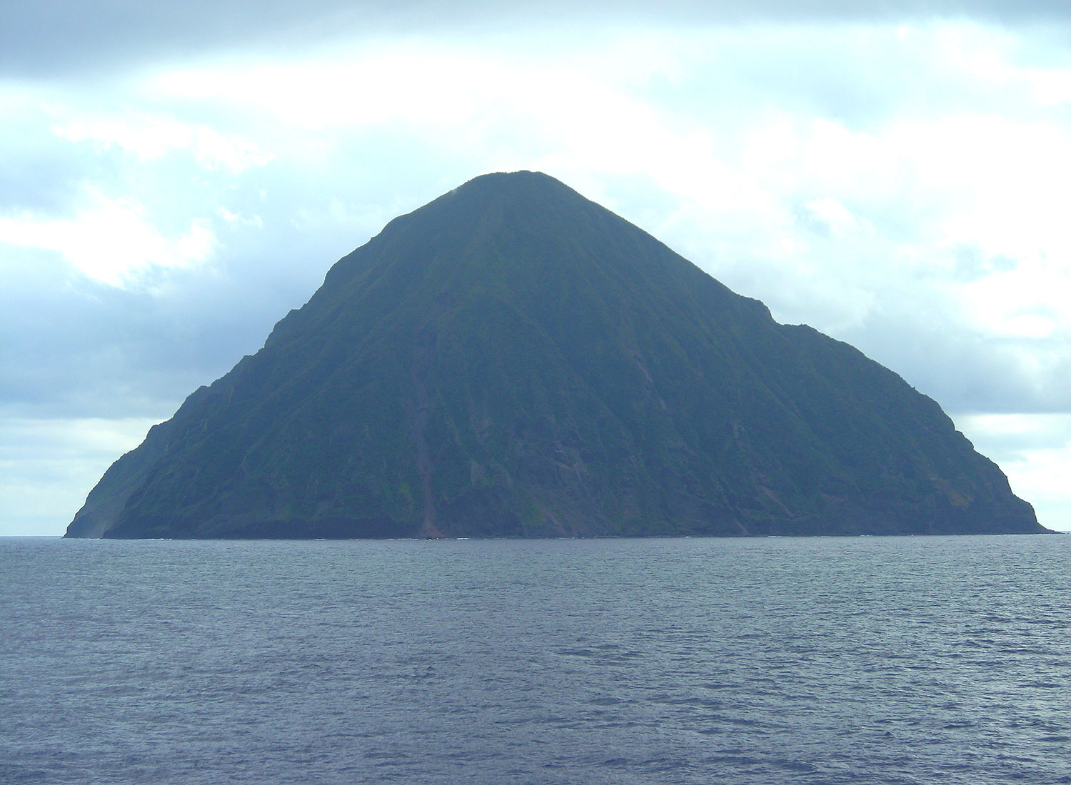 The island of Minami Iwojima (Minami-Iōtō), Volcano Islands, Japan - viewed from Pacific Venus.